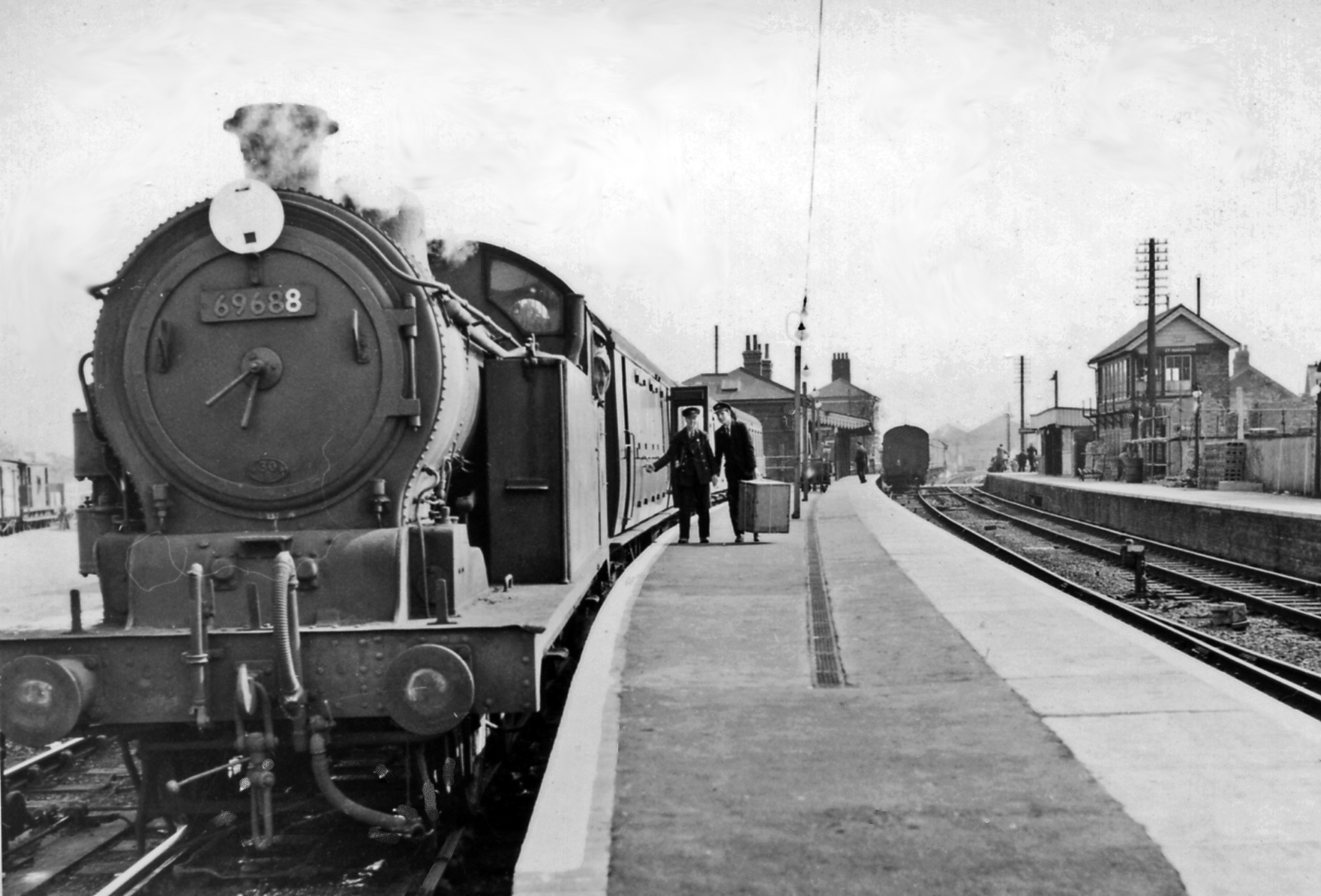 St Margarets Station, with Buntingford branch train. View southwards, towards Broxbourne and London; ex-Great Eastern Hertford East branch from Broxbourne of the Liverpool Street - Cambridge main line; junction of a branch to Buntingford (closed to passengers 16/11/64, to goods 20/9/65). The Buntingford train - which seems to have at least one passenger, is headed by N7/3 0-6-2T No. 69688.